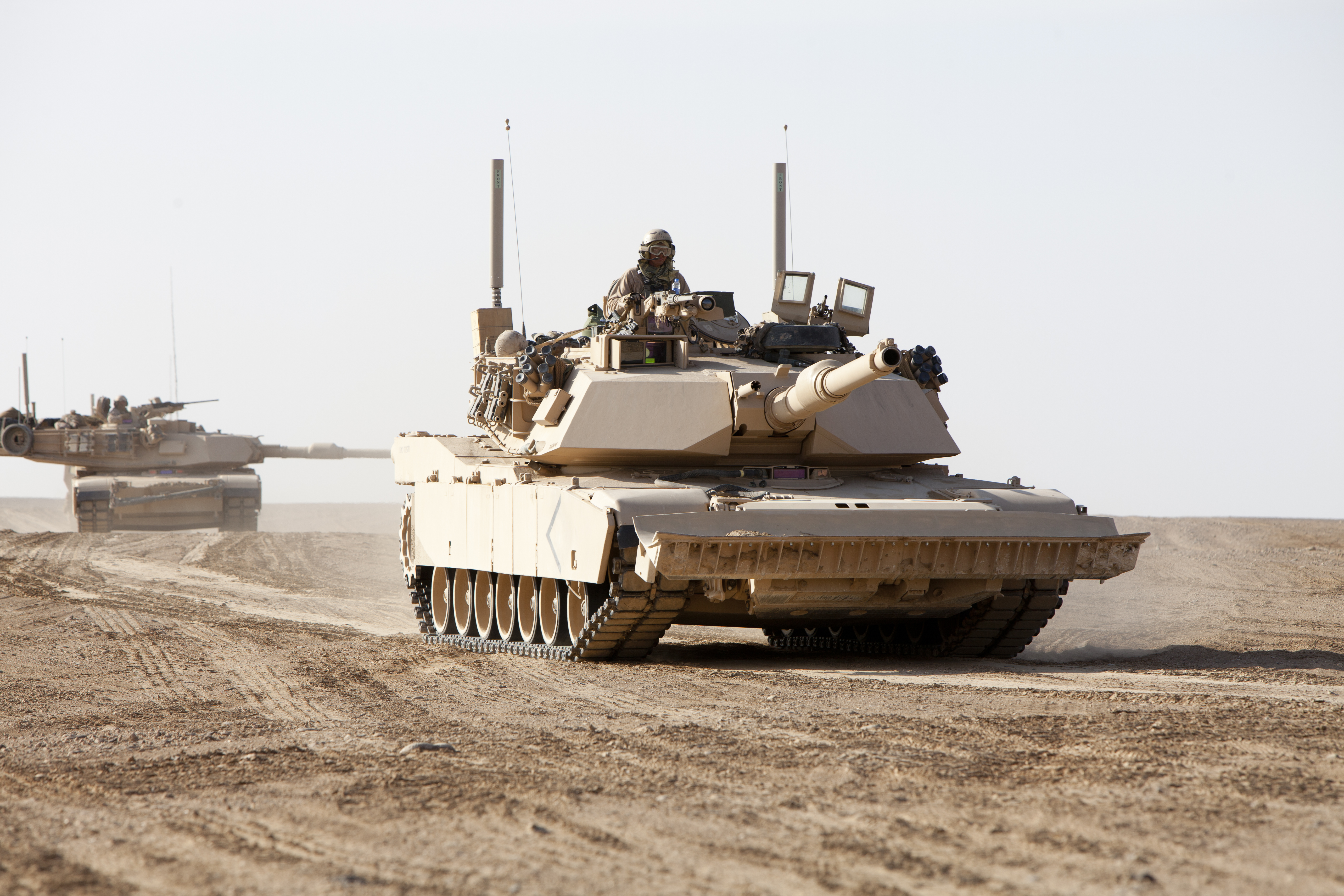 U.S. Marines with 1st Marine Division, 1st Tank Battalion, Delta Company, navigates the terrain of Helmand province, Afghanistan in a M1A1 Abrams Tank while on a convoy escorted by 1st Marine Logistics Group (Forward), Combat Logistics Battalion 8 (not shown), Feb. 1. The 1st MLG (FWD), CLB-8, provided security and maintenance. Unit: 1st Marine Logistics Group